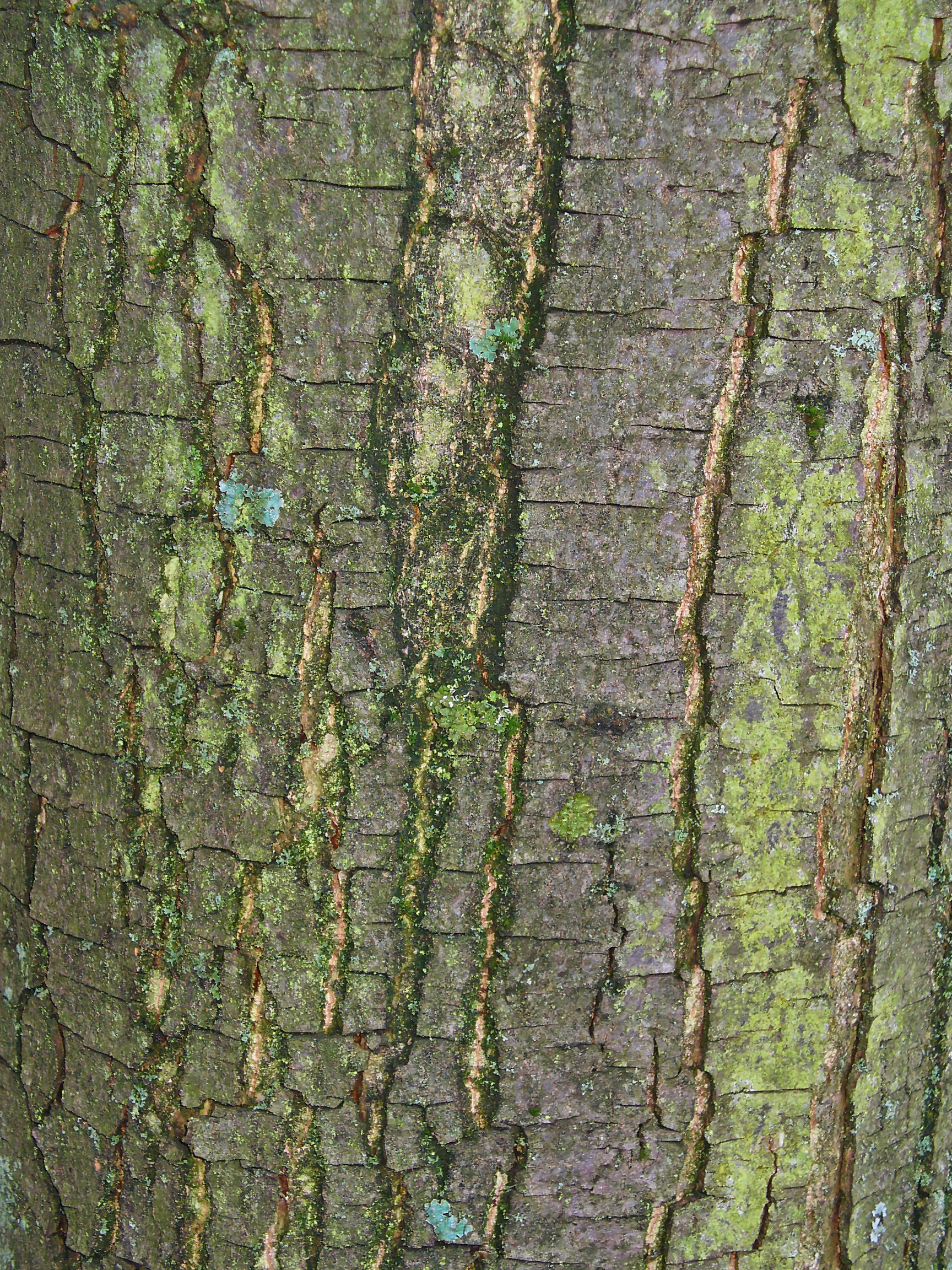 Castanea sativa, Fagaceae, Sweet Chestnut, bark. Karlsruhe, Germany.